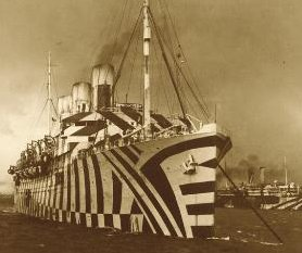 WWI troopship, SS Empress of Russia, painted in "dazzle" camouflage markings